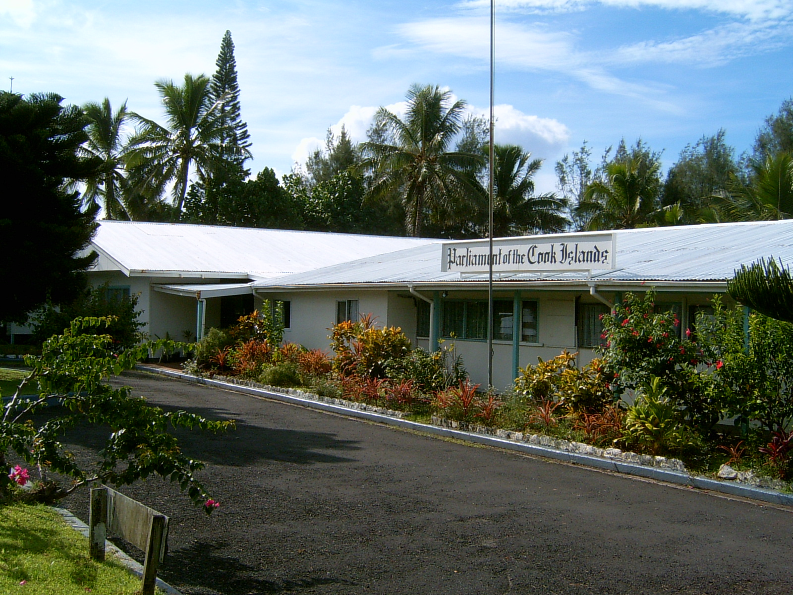 Parliament building of the Cook Islands, located on Rarotonga. It used to be some kind of hotel which later was rebuilt.